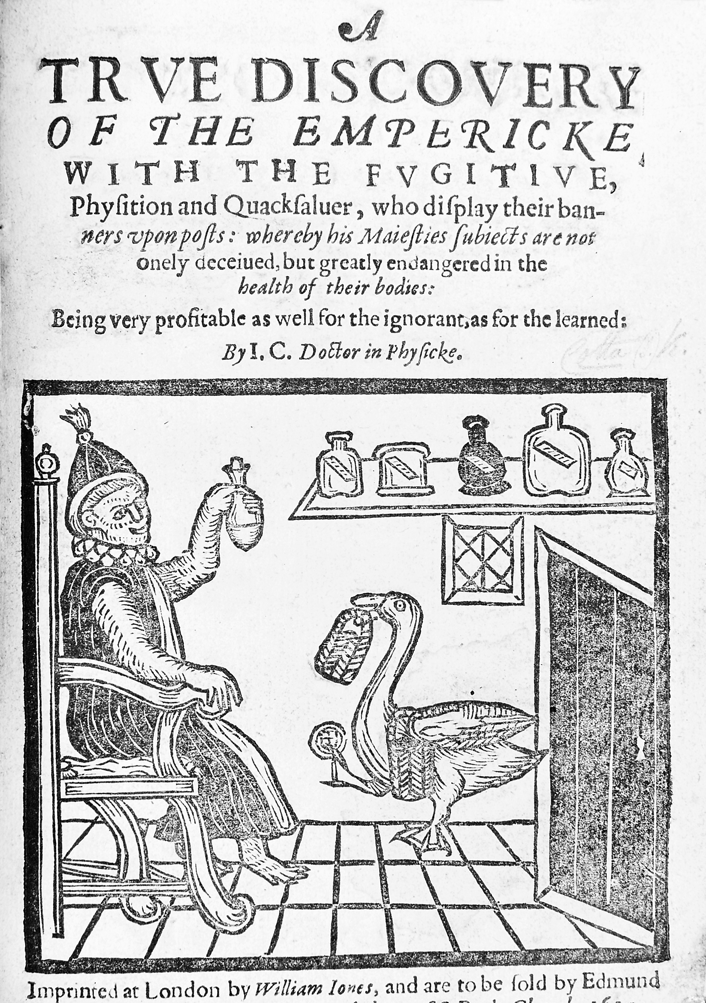 Wellcome Images Keywords: Witchcraft